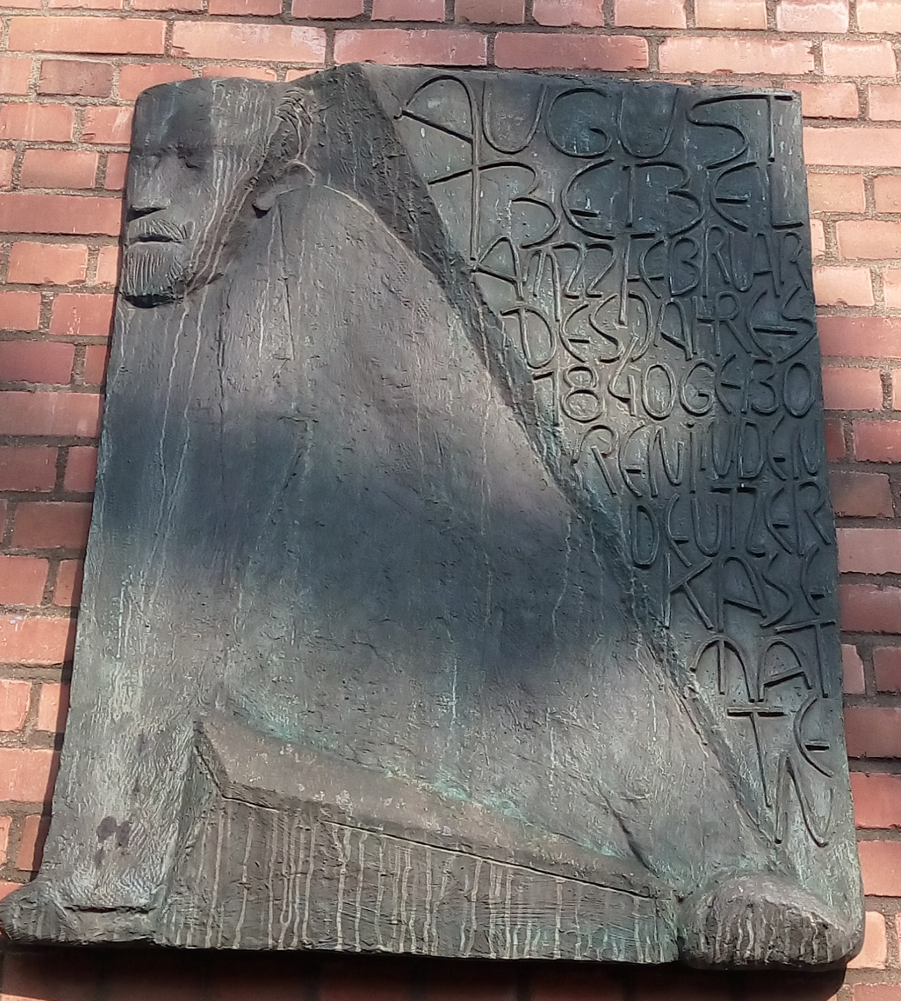 Memorial plate for August Bebel above the entry to the house in Kasemattenstraße 8, 50679 Cologne (Deutz)